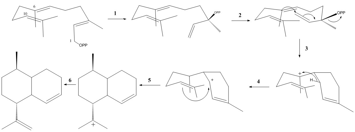 Mechanism that follows the reaction